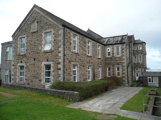 Camborne Redruth Community Hospital The building was originally a workhouse built in 1897. It became Burncoose Hospital in 1948 at the start of the NHS, and is now part of the Community Hospital serving Redruth and Camborne.